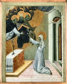 St. Catherine of Siena Invested with the Dominican Habit